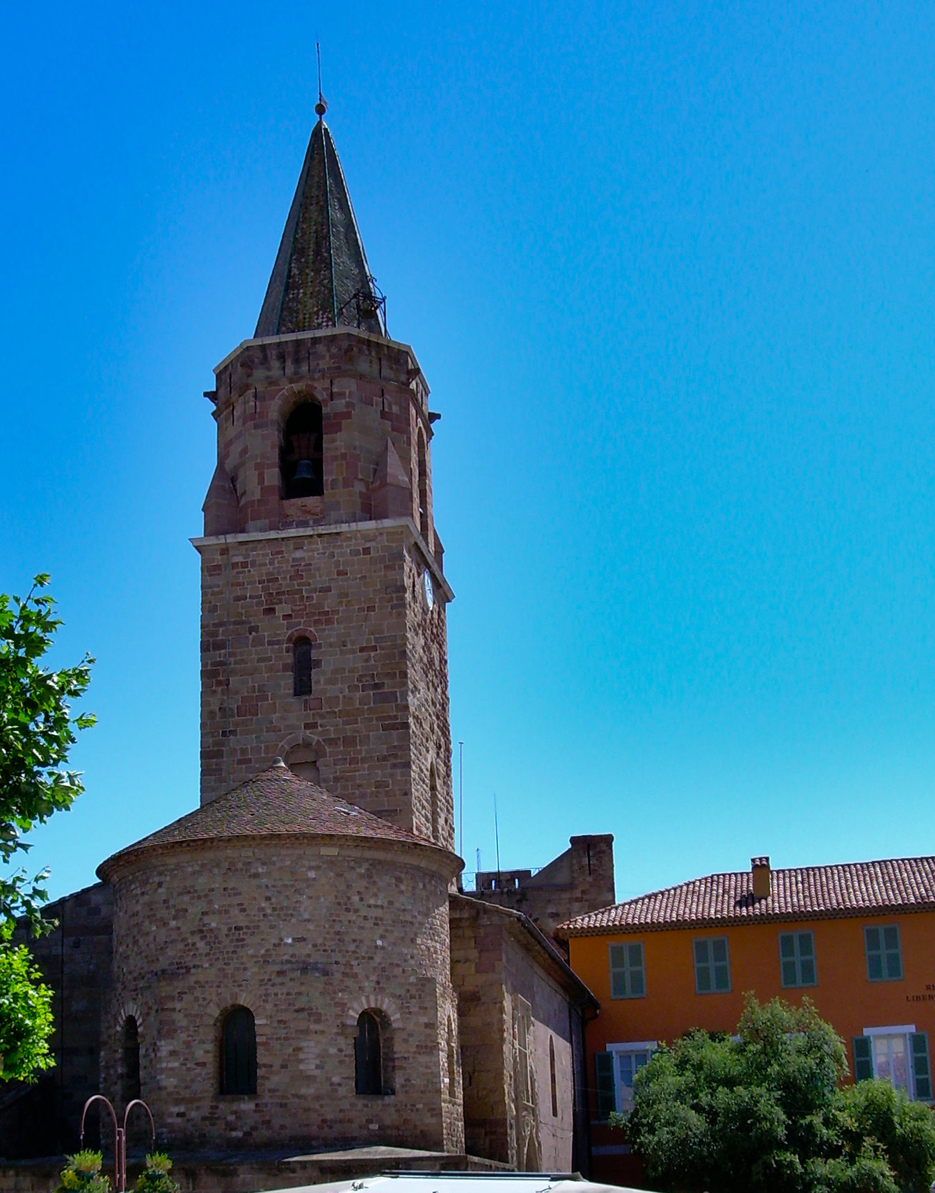 Saint-Leonce Cathedral, Frejus, France